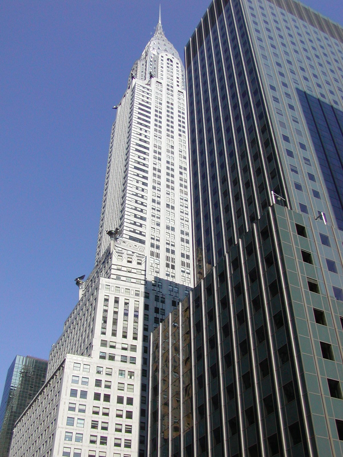 The Chrysler Building seen from the east on 42nd Street in morning light. Photograph by Leena Hietanen March 2005. (Uploaded with permission.)